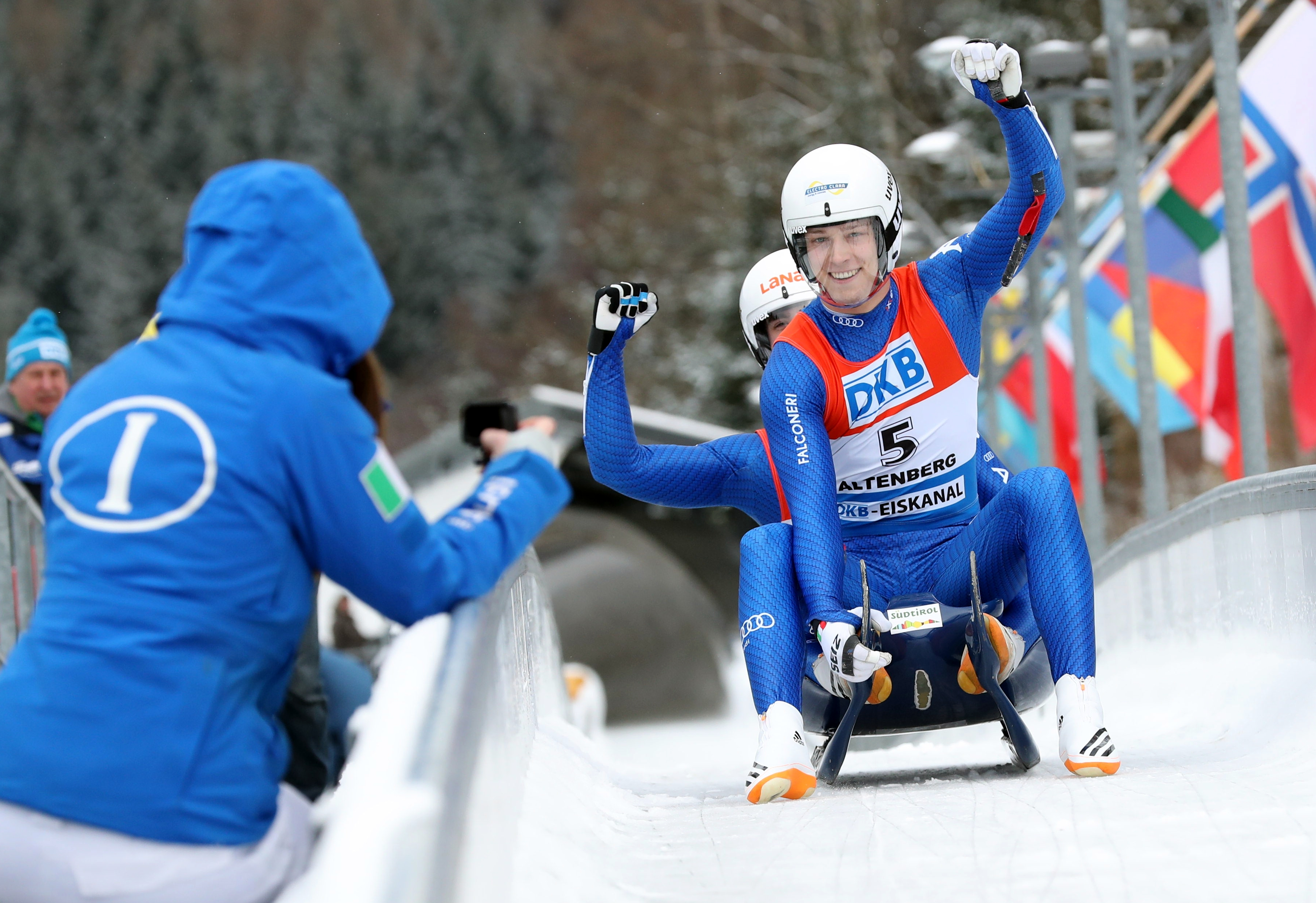 33rd Junior World Championship Luge, Altenberg 2018: Ivan Nagler, Fabian Malleier